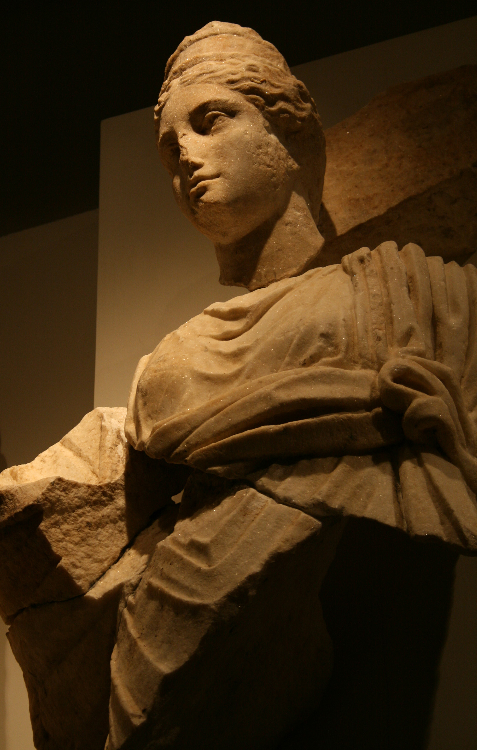 Statue of Vibia Sabina from Ephesos (Ephesos-Museum, Hofburg, Vienna)